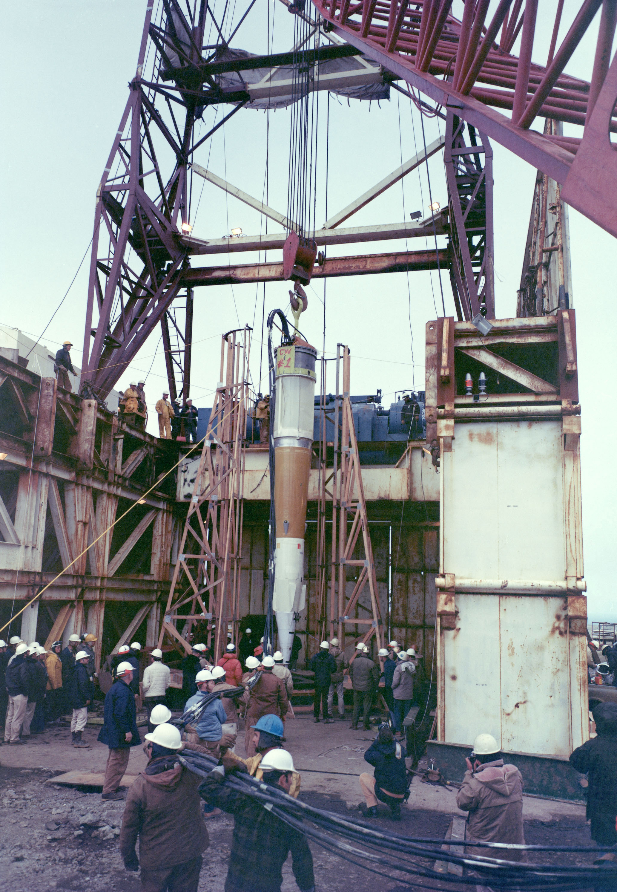 Cannikin warhead being lowered into test shaft, Amchitkam, Alaska